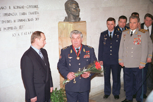 STAR CITY. Acting President Putin presenting pilot-cosmonauts and employees of the Cosmonaut Training Centre with state awards. Colonel General Pyotr Klimuk, head of the Cosmonaut Training Centre, was awarded the Order For Services to the Fatherland, 3rd class.